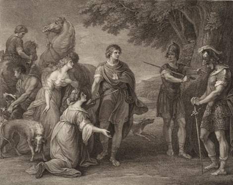 Palamon & Arcite